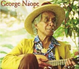 George Naope